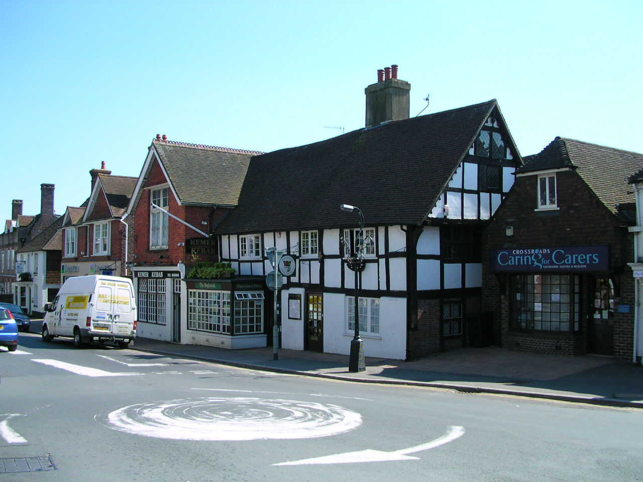 Hailsham, East Sussex, England.